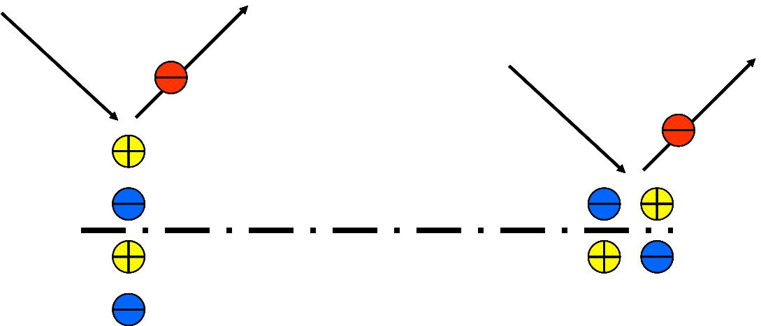 Picture to explain dipole scattering mechanism in HREELS